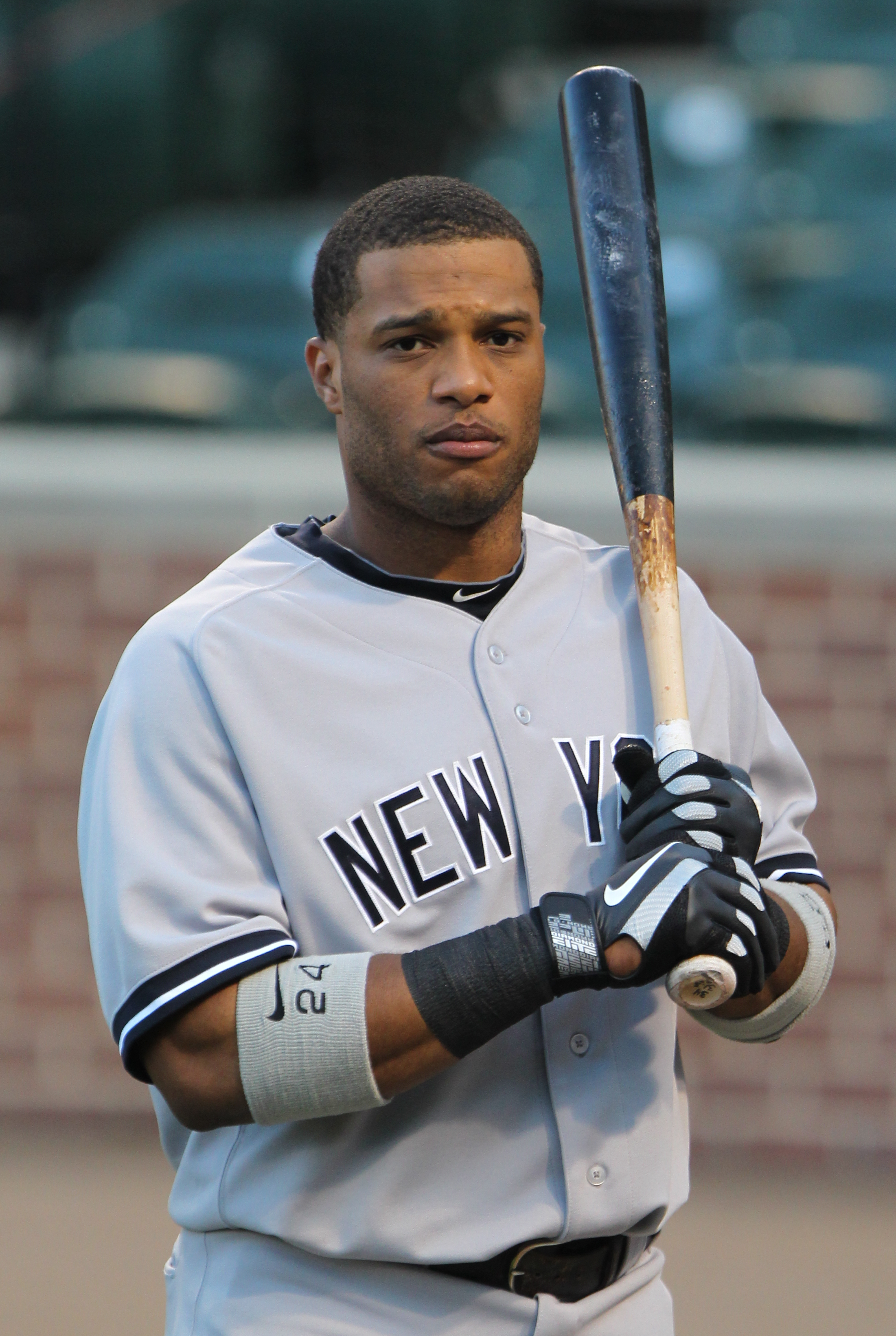 Robinson Cano holds a bat prior to a game between the New York Yankees and Baltimore Orioles on August 28, 2011